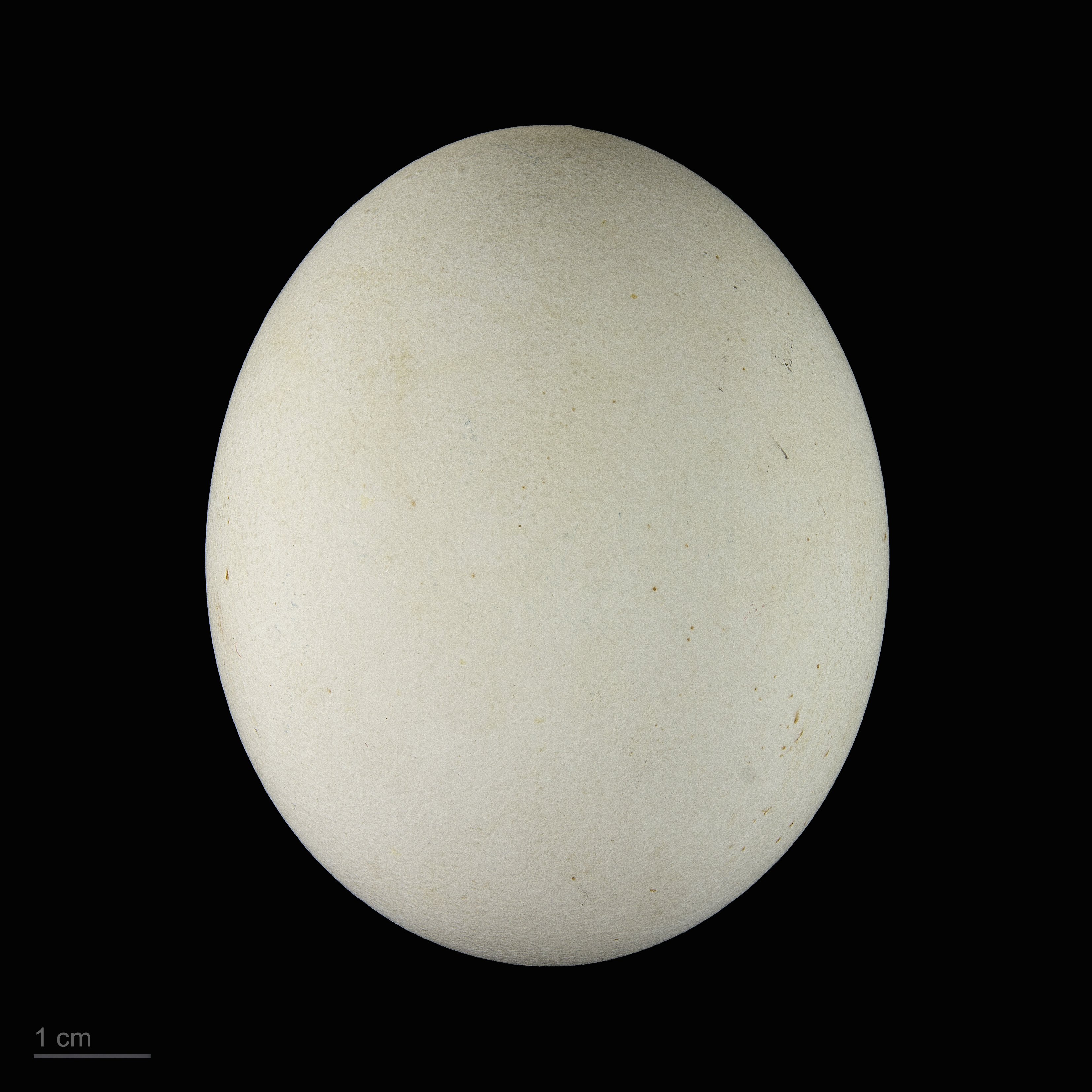 Eggs of short-toed snake eagle collection of Jacques Perrin de Brichambaut.